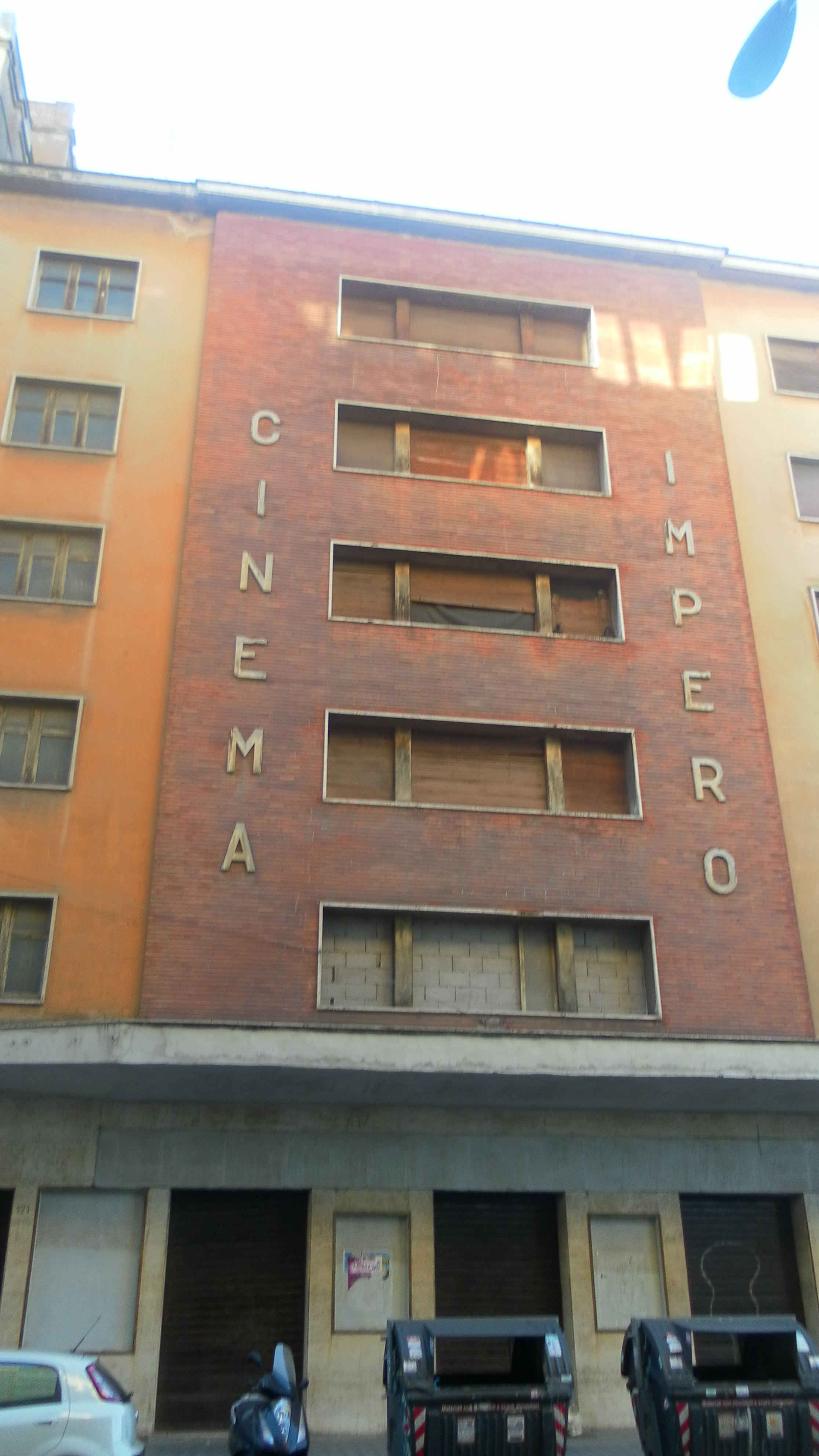 Cinema Impero in via dell’Acqua Bullicante, 121 a Torpignattara